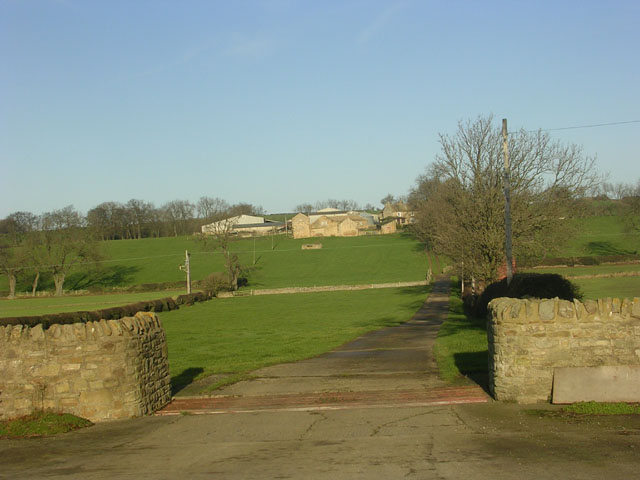 West Shaws near Barnard Castle. West Shaws on the Whorlton to Barnard Castle road